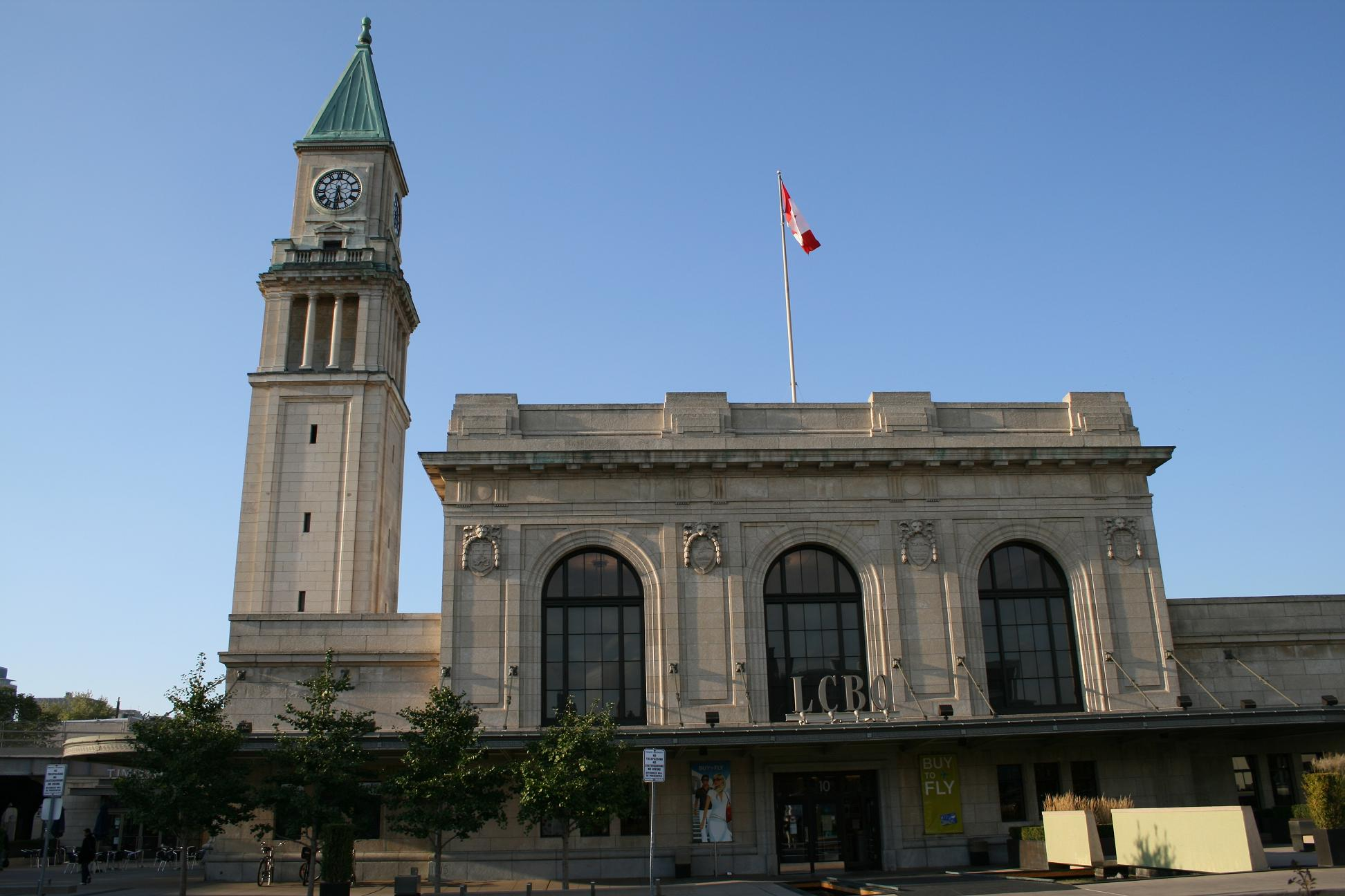 Summerhill North Toronto CPR Station, Toronto, Canada.